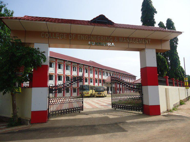 The Gate into the College of Engineering & Management in Punnapra, India